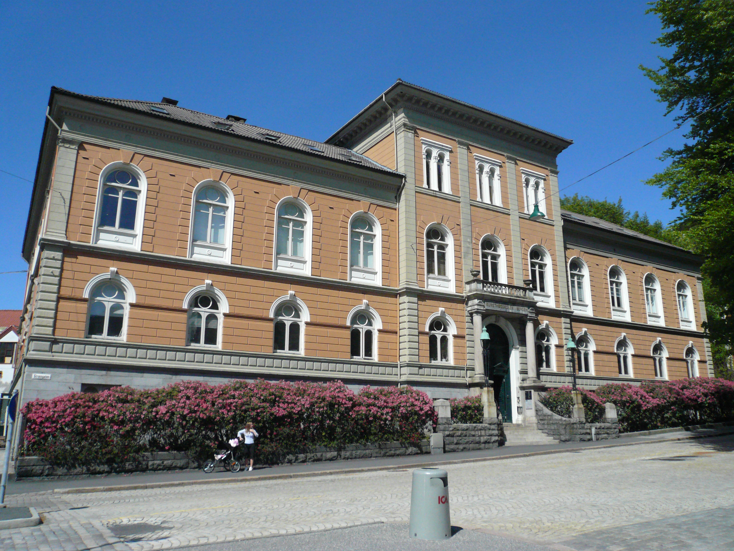 Architect Giovanni Müller, Bergen tekniske skole, Strømgaten 1, Bergen, Norway (1876)